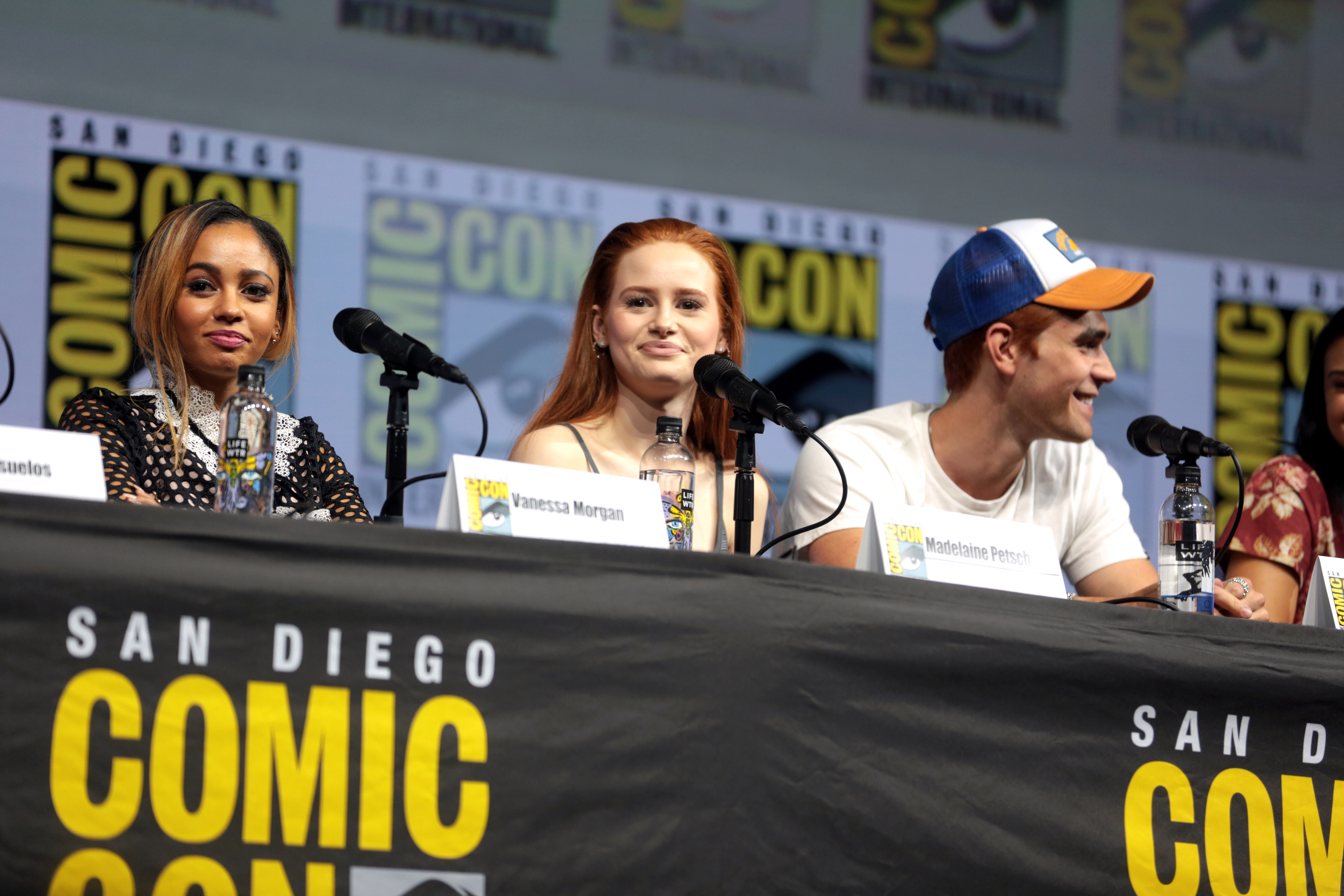 Vanessa Morgan, Madelaine Petsch and KJ Apa speaking at the 2018 San Diego Comic Con International, for "Riverdale", at the San Diego Convention Center in San Diego, California.